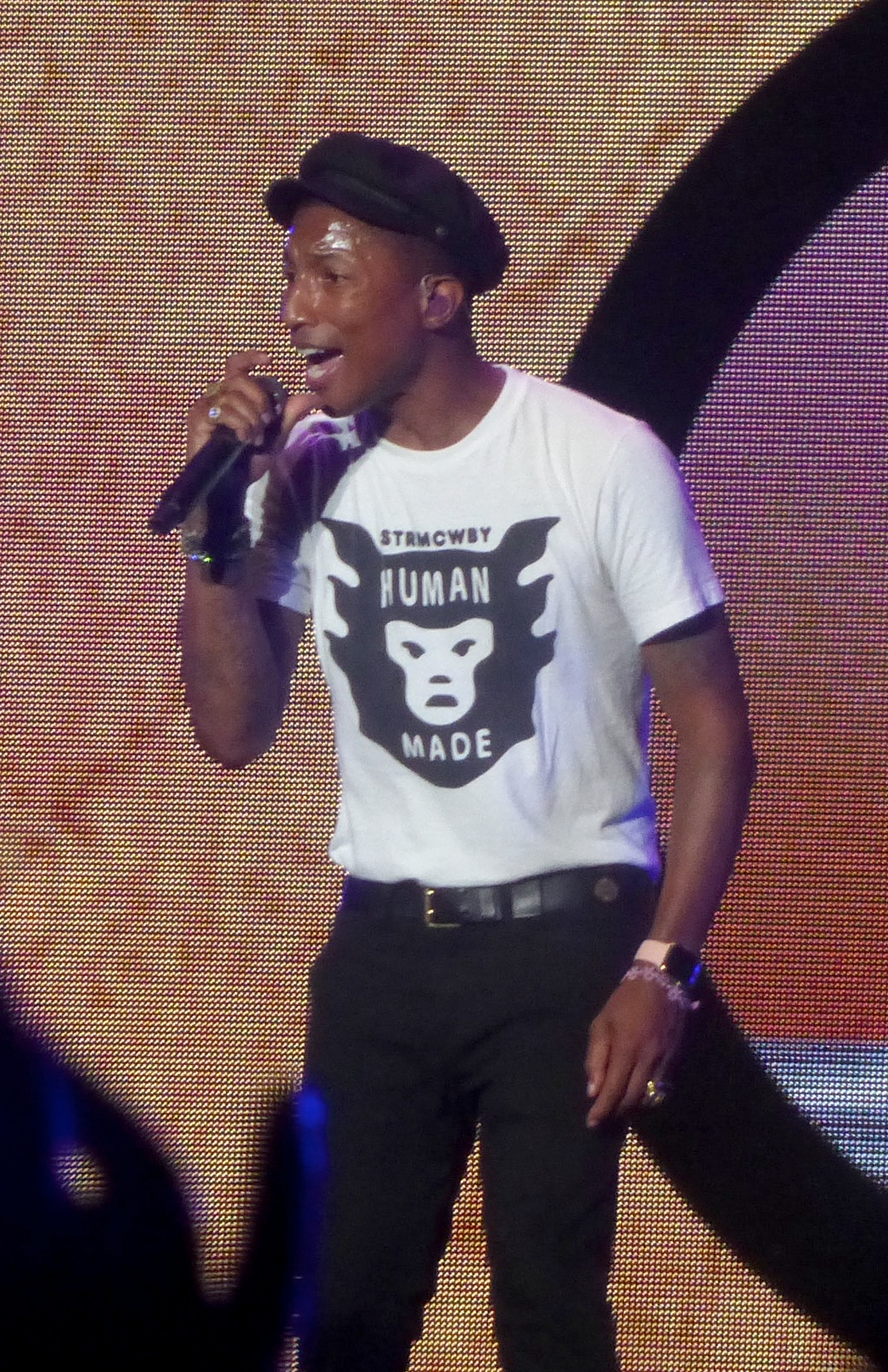 Pharrell Williams performing at Tokyo Summer Sonic Festival